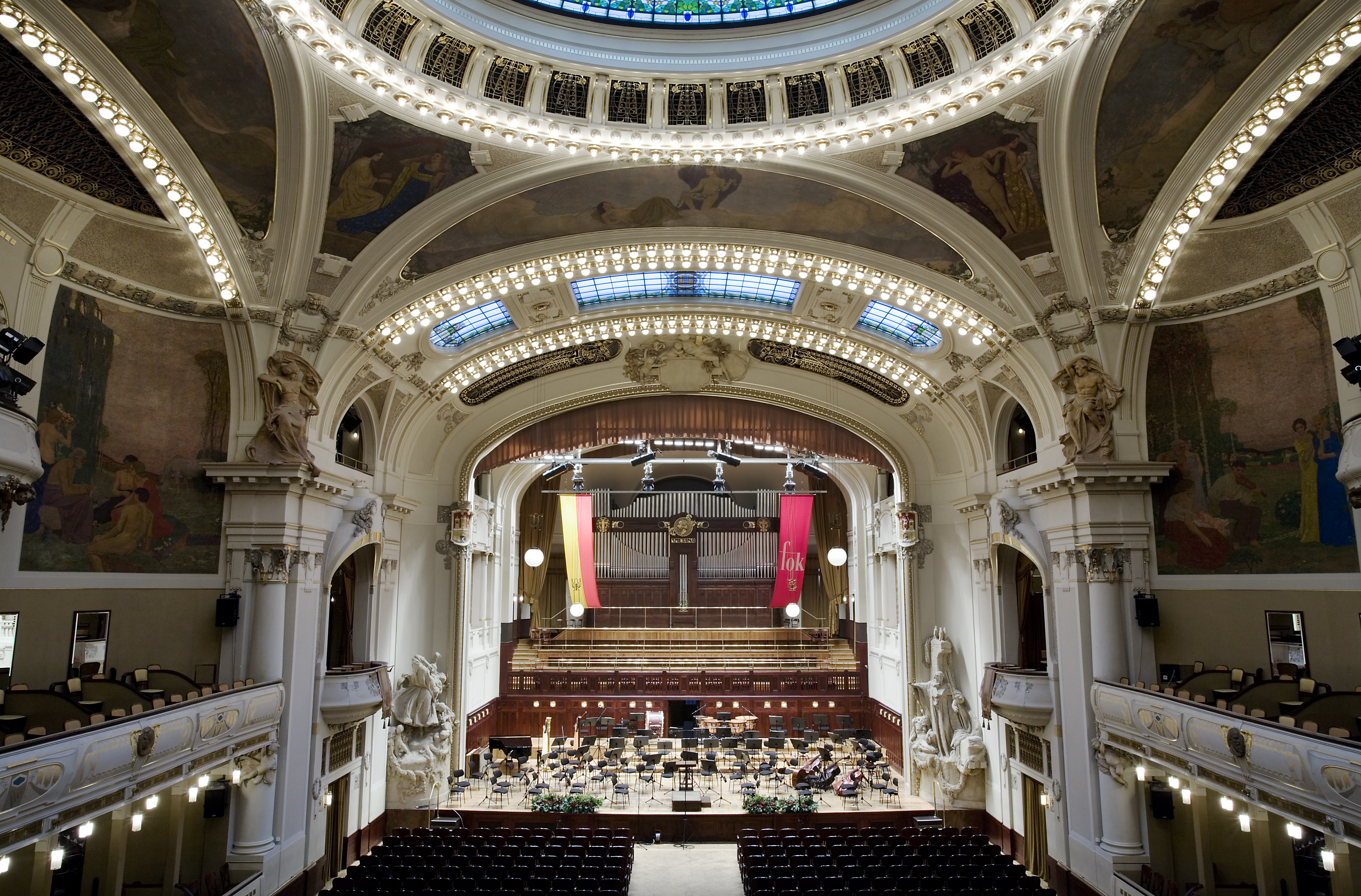 Smetana Hall at the Municipal House (Obecní Dum), Prague